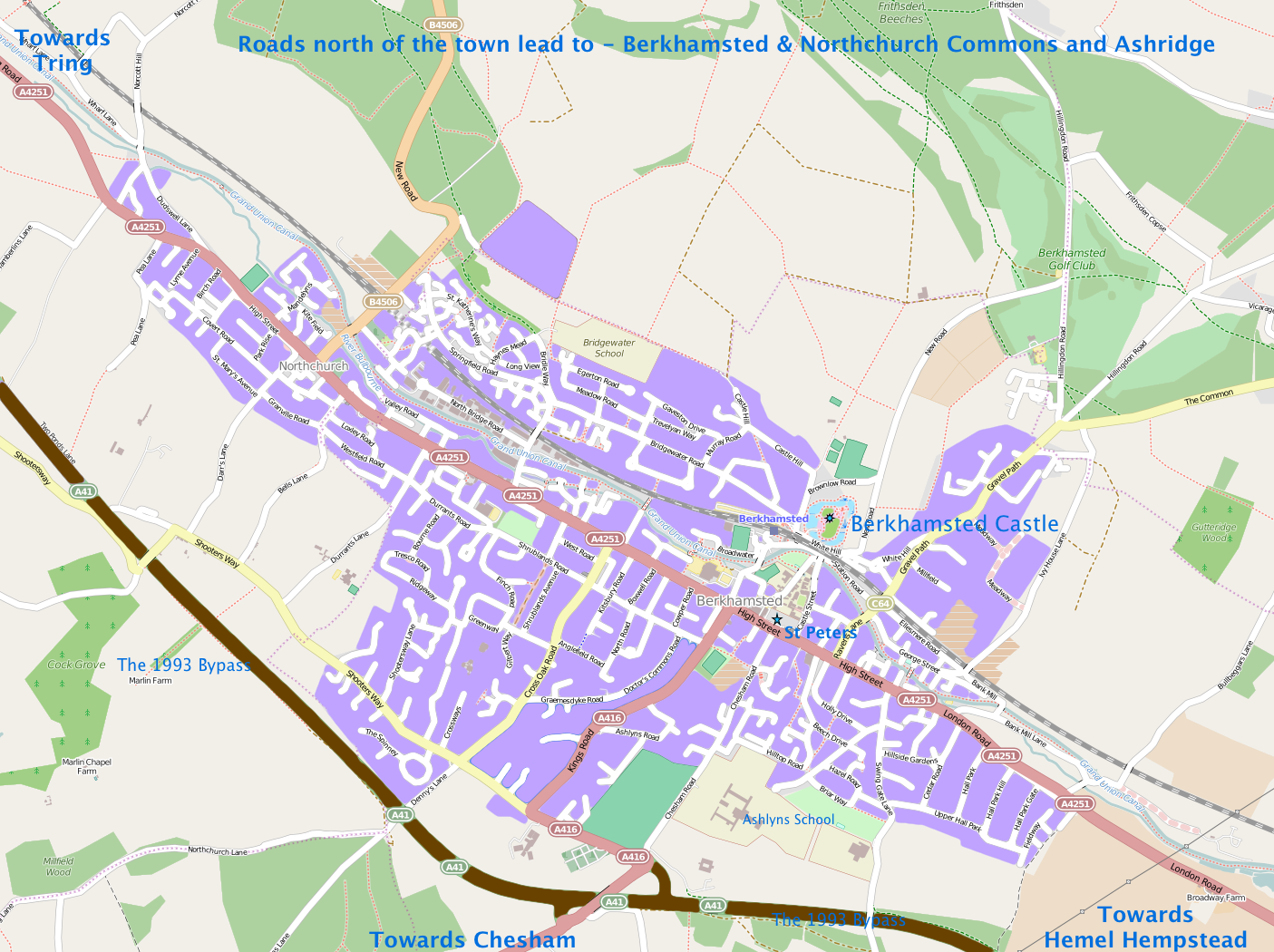 An edited version of the Open Street Map area of Berkhamsted, licensed under the Open Database License (ODbL) and Creative Commons Attribution-ShareAlike 2.0 license (CC BY-SA). “© OpenStreetMap contributors”.